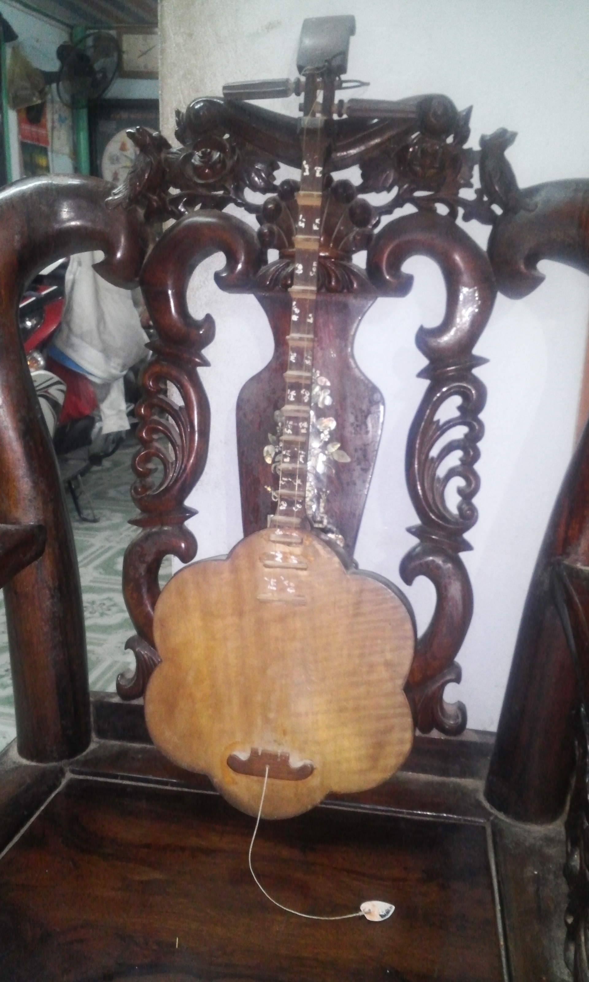 Picture of a Vietnamese musical instrument, called a Đàn Sến.